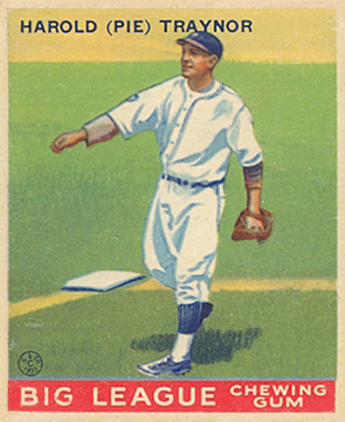 1933 Goudey card of Pie Traynor of the Pittsburgh Pirates #22. PD-not-renewed.